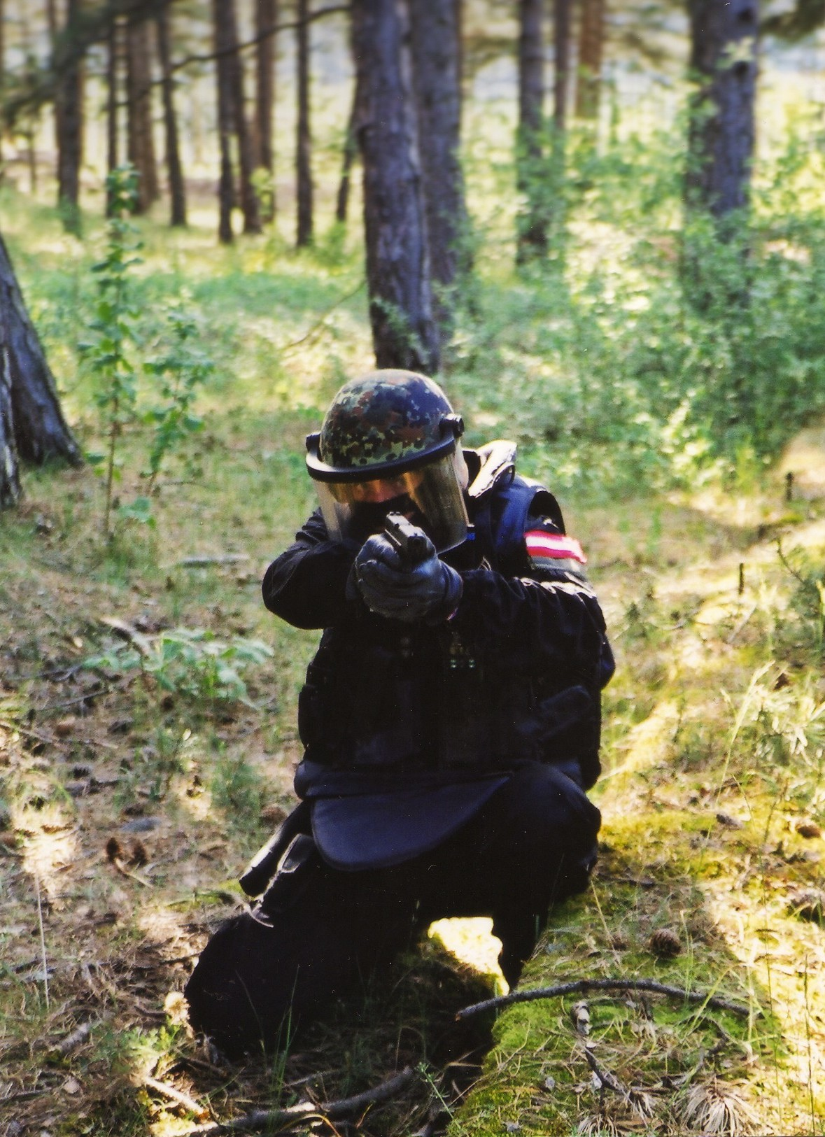 A member of the austrian Counter-Terrorism unit Einsatzkommando Cobra aiming with a handgun during an operational training.